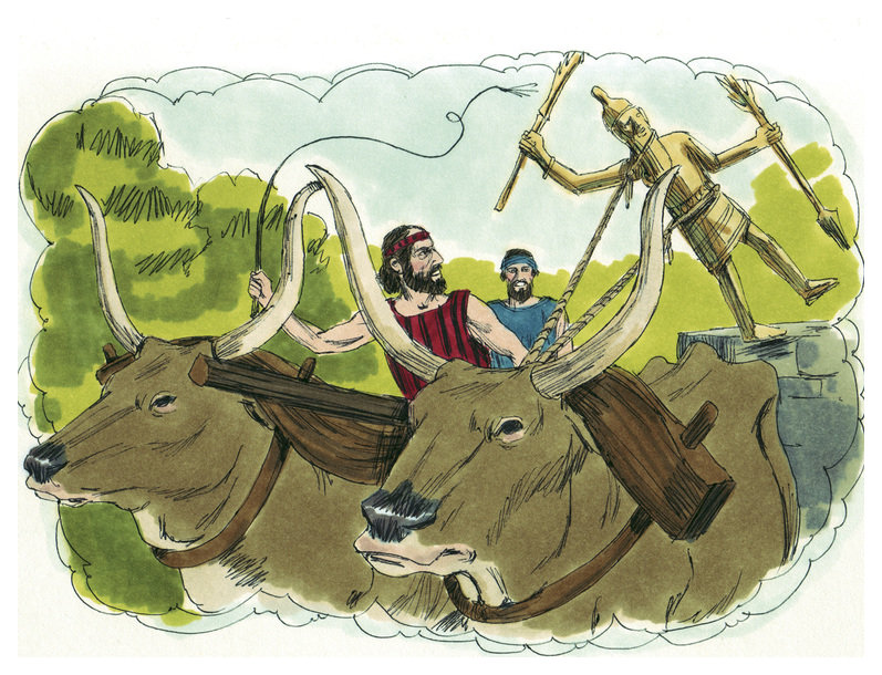 Biblical illustration of Book of Deuteronomy Chapter 13